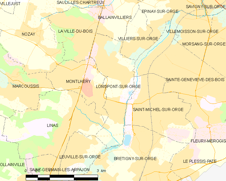 Map of French municipality Longpont-sur-Orge